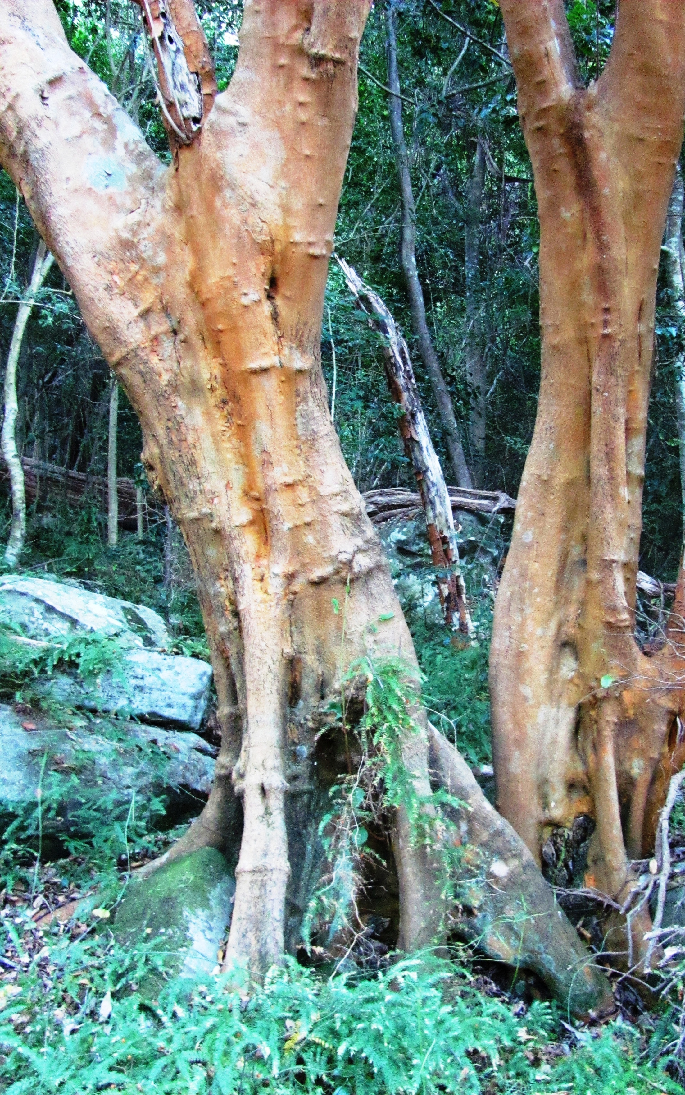 Cape Saffron tree growing wild in Cape Towns indigenous afrotemperate forest. Distinctive coloured trunk. Cassine peragua.